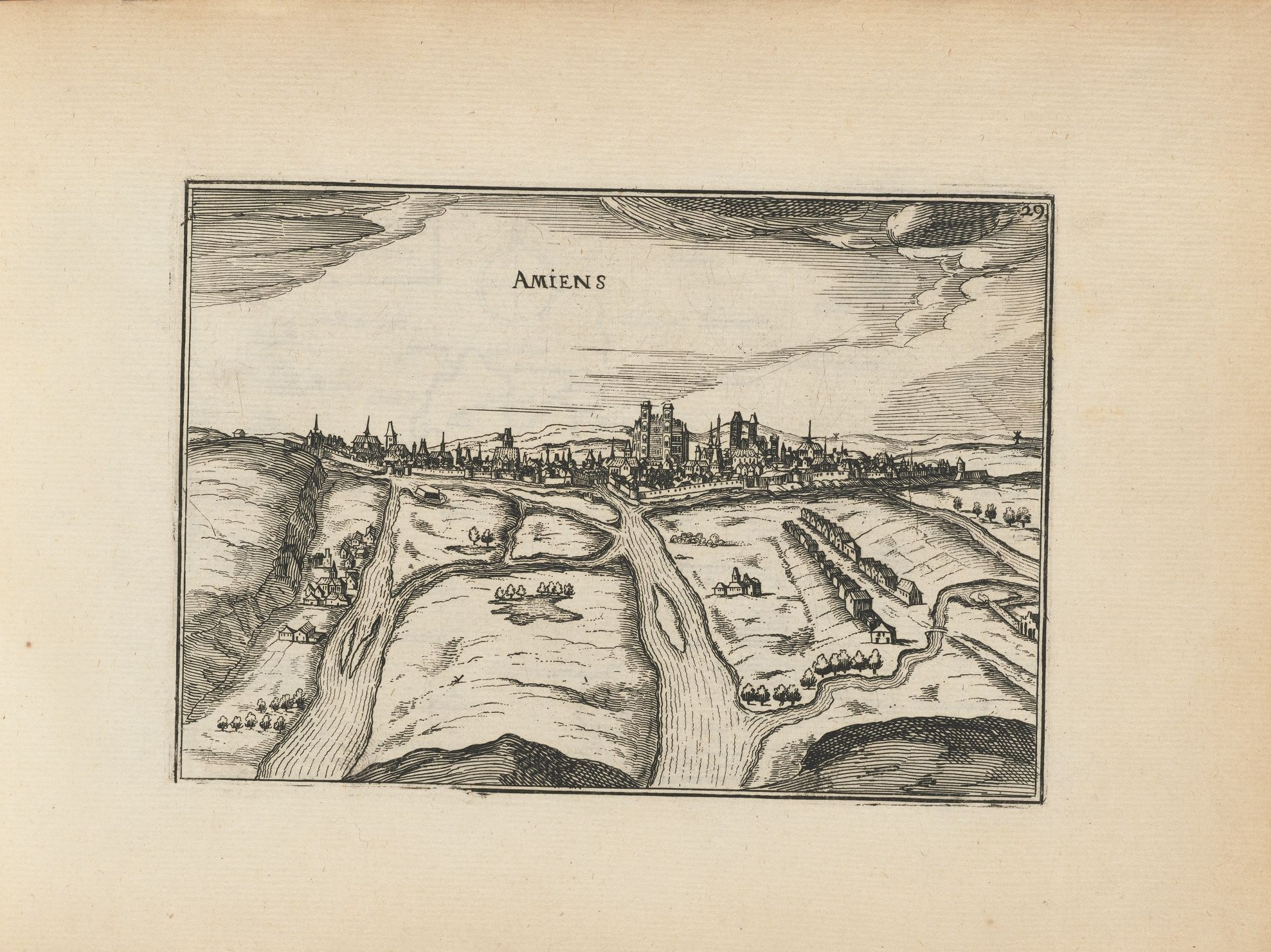 Map of Amiens. From Les plans et profils de toutes les principales villes et lieux considerables de France. Published: Paris, chez Melchior Tavernier, 1634. By Nicolas Blassin. Entire book digitized at: Fr 2040.20*, Houghton Library, Harvard University